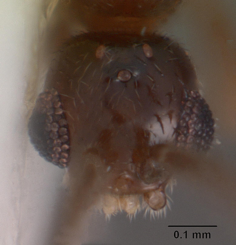 Head view of ant Yavnella indica specimen casent0102374.